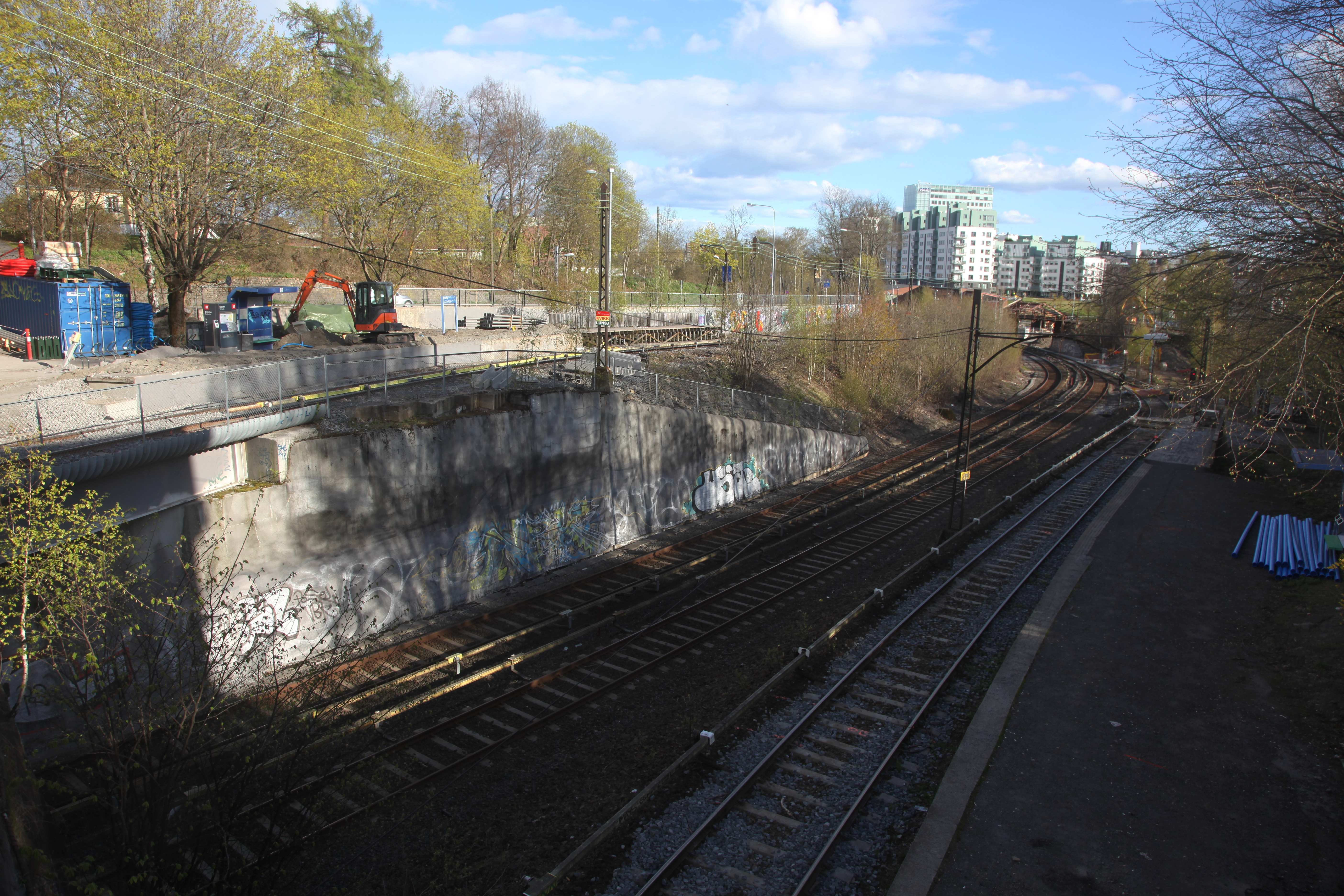 Frøen station on Holmenkollbanen. The station is pictured when closed for work. Holmenkollbanen has tracks on both sides. The tracks in the middle are used by Sognsvannsbanen and T-baneringen